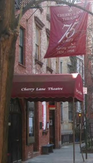 Cherry Lane Theatre, New York City.